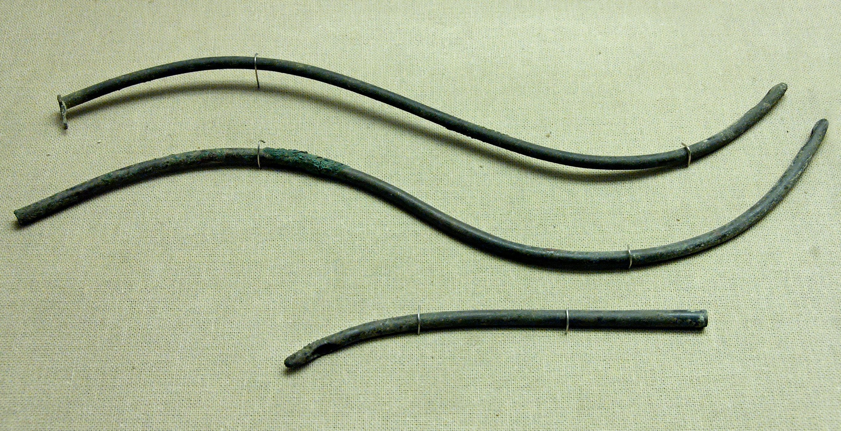 Catheters from a set of surgical instruments and accessories. Bronze, Roman work, 1st century AD. Said to have been found together in Italy. Ancient Roman medicine.